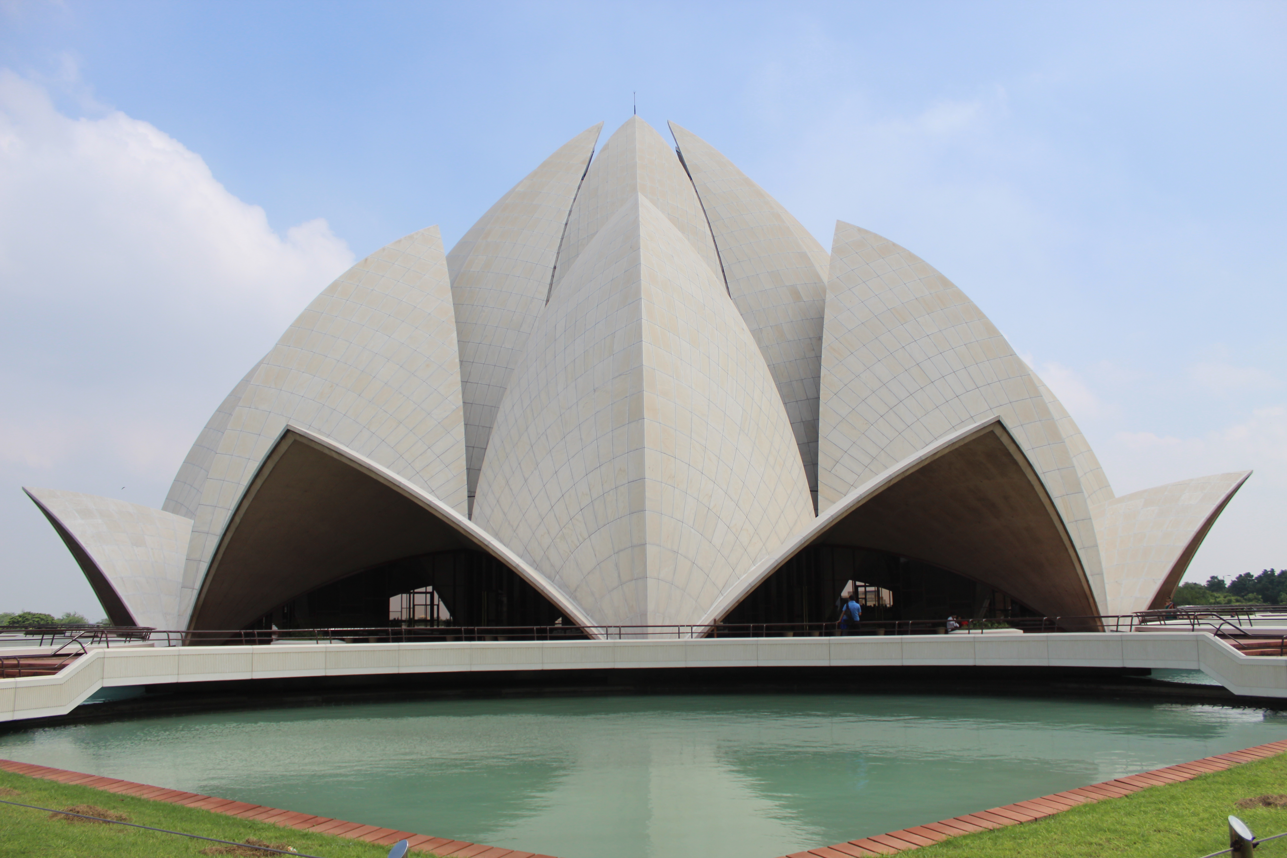 the lotus temple date=2018-09-09 11:22:19